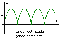 Original Enciclopedia Libre, © Willy